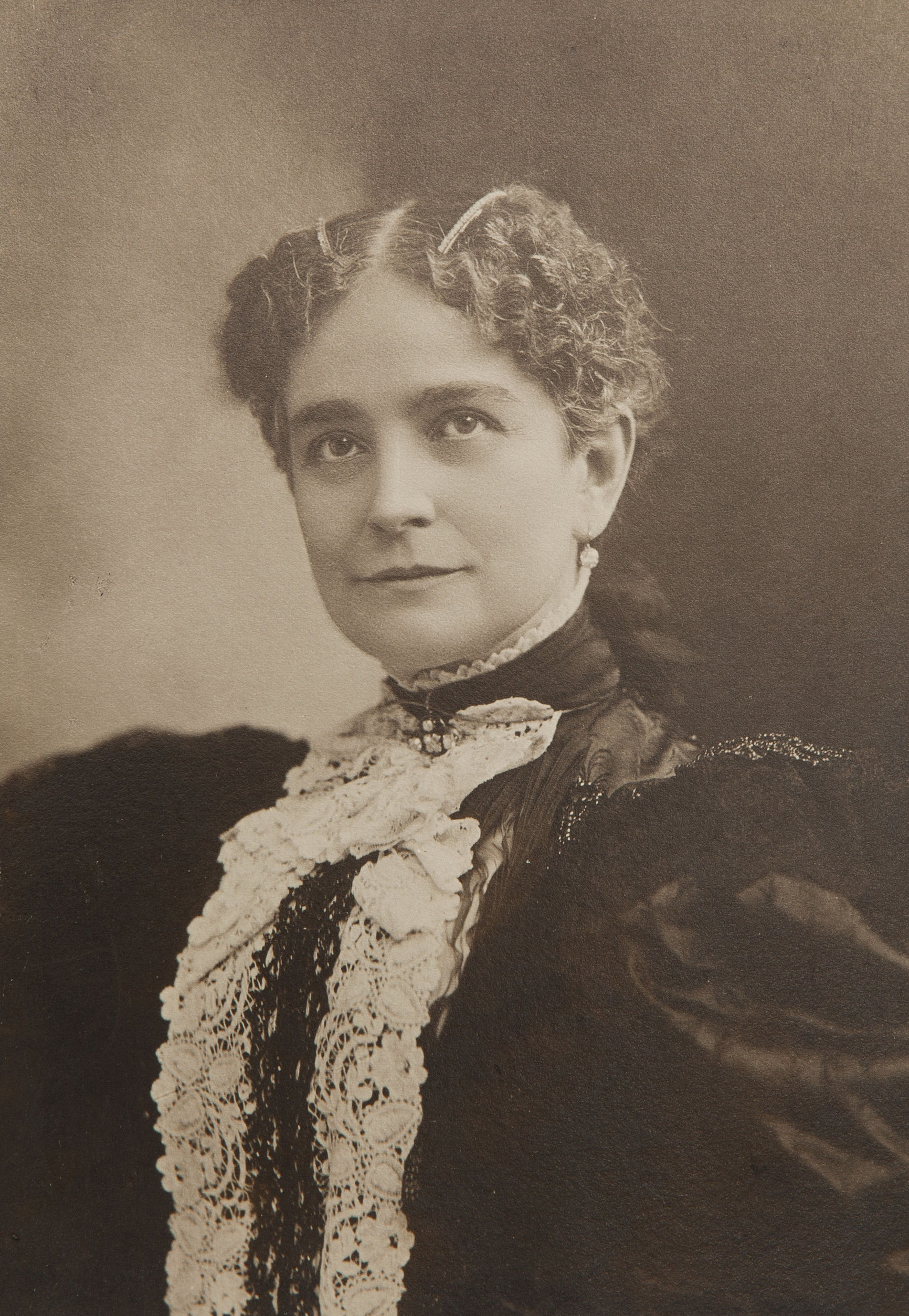 Ida Saxton McKinley